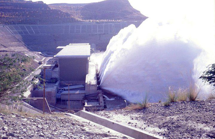 A view of Mangla Dam Power House, Pakistan